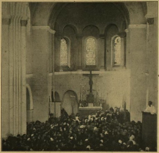 Sanctification of Church of Saints Simon and Helena (Minsk, Belarus), 1910 AD